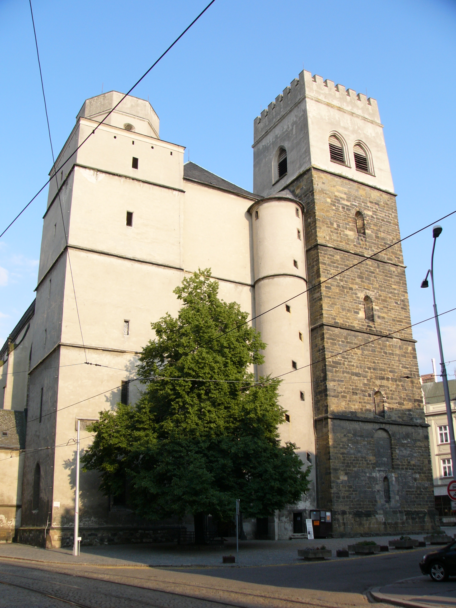 Church kostel sv. Mořice in Olomouc (Czech Republic)..